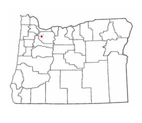 Map of Oregon showing the location of the City of Damascus.